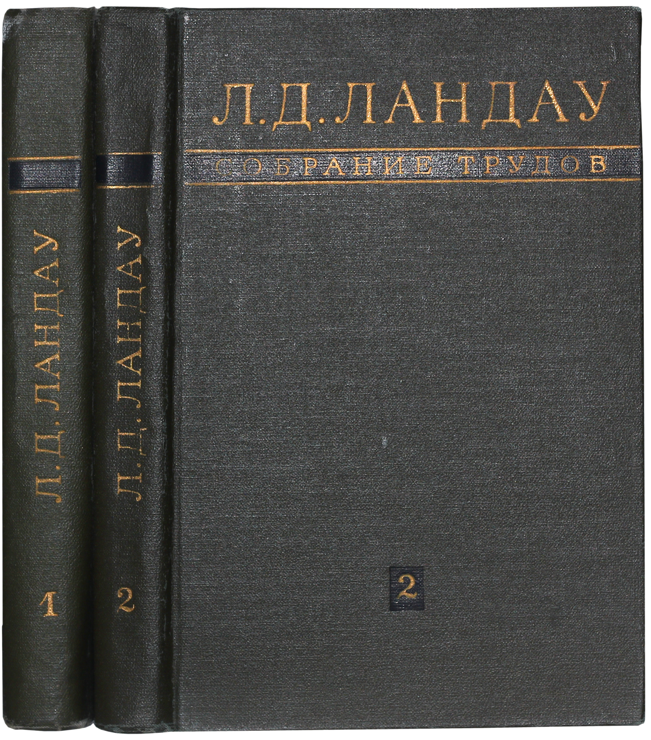 Lev Landau - collection of works